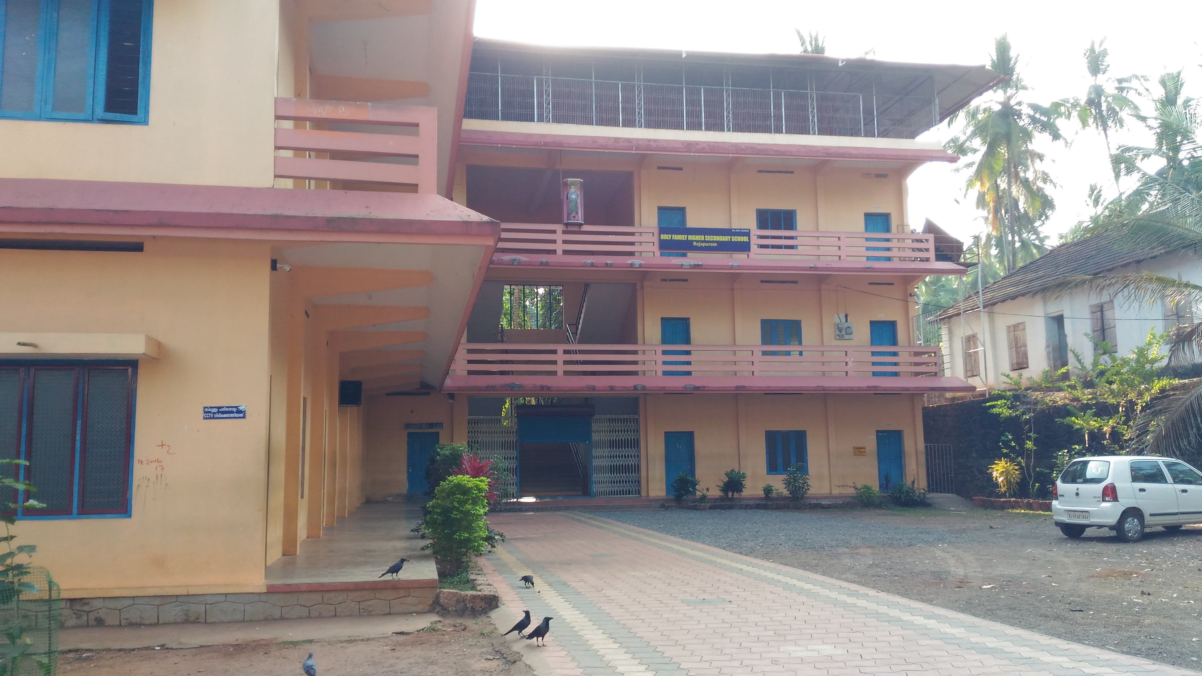 Holy family High school Rajapuram